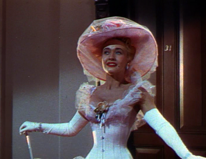 Screenshot from the trailer of the film "Two Weeks With Love" (1950), showing Jane Powell.